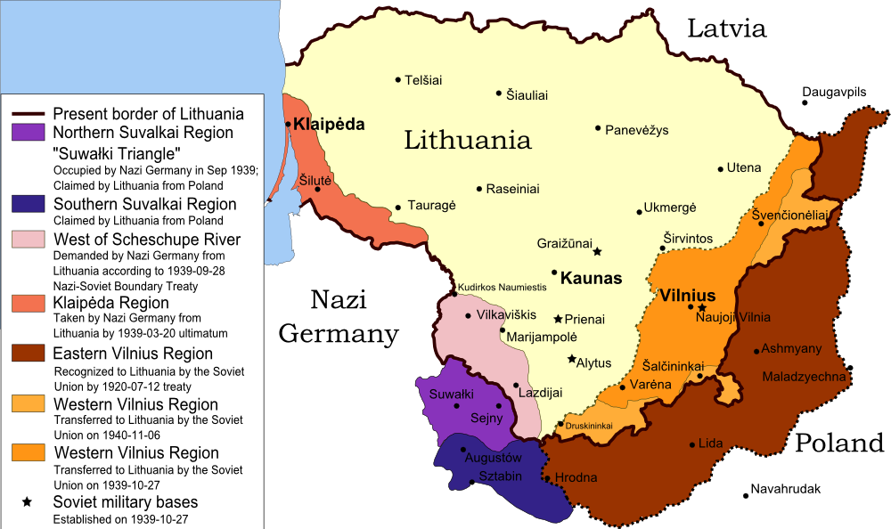 Map of territorial disputes and claims regarding Lithuania in 1939-1940. For the legend see the description page for the source file at image:Lithuania territory 1939-1940.svg.